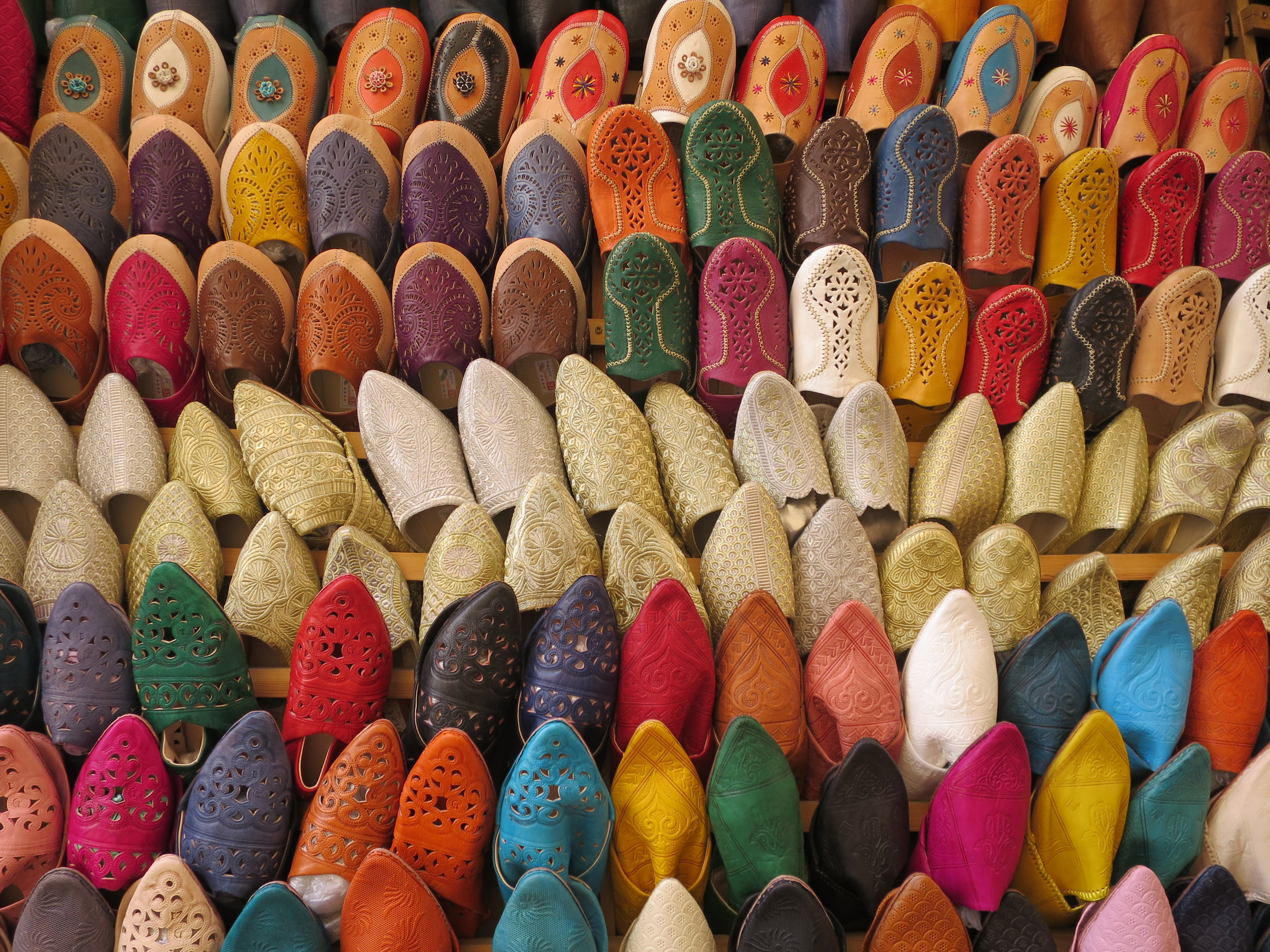 Picture taken in a market of Fès. This is an image of Cultural Fashion or Adornment from Morocco